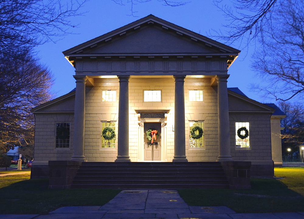 The Redwood Library and Athenaeum, in Newport, Rhode Island, at night